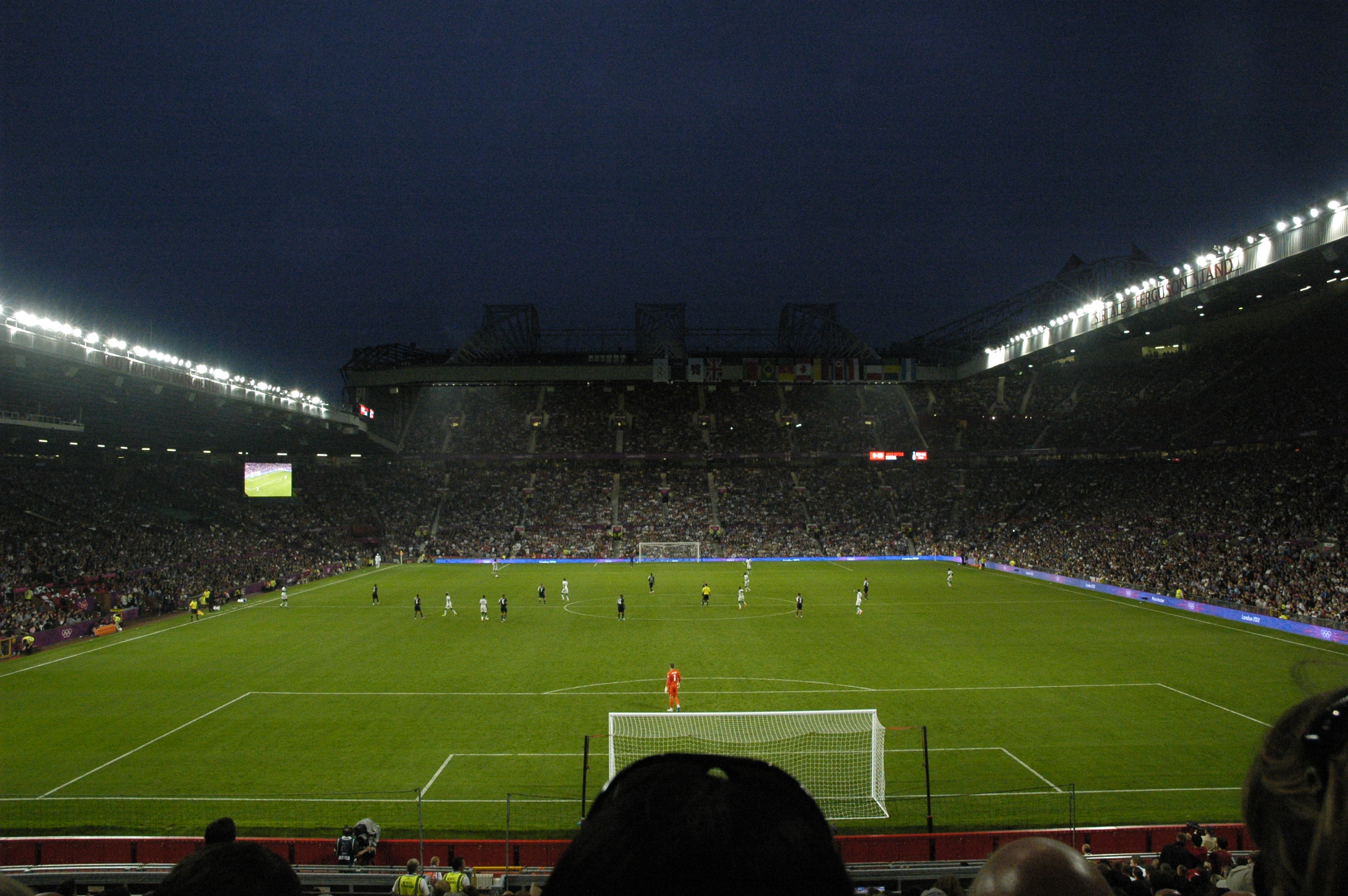 Football at the 2012 Summer Olympics – Men's tournament (Great Britain, Senegal)